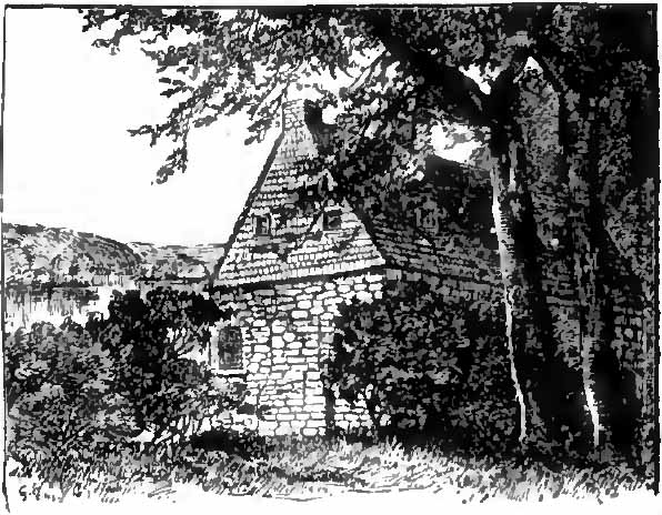 Drawing of house of John Harris (1716-1791) Harrisburg, Pennsylvania, founder and merchandiser to American aboriginals.